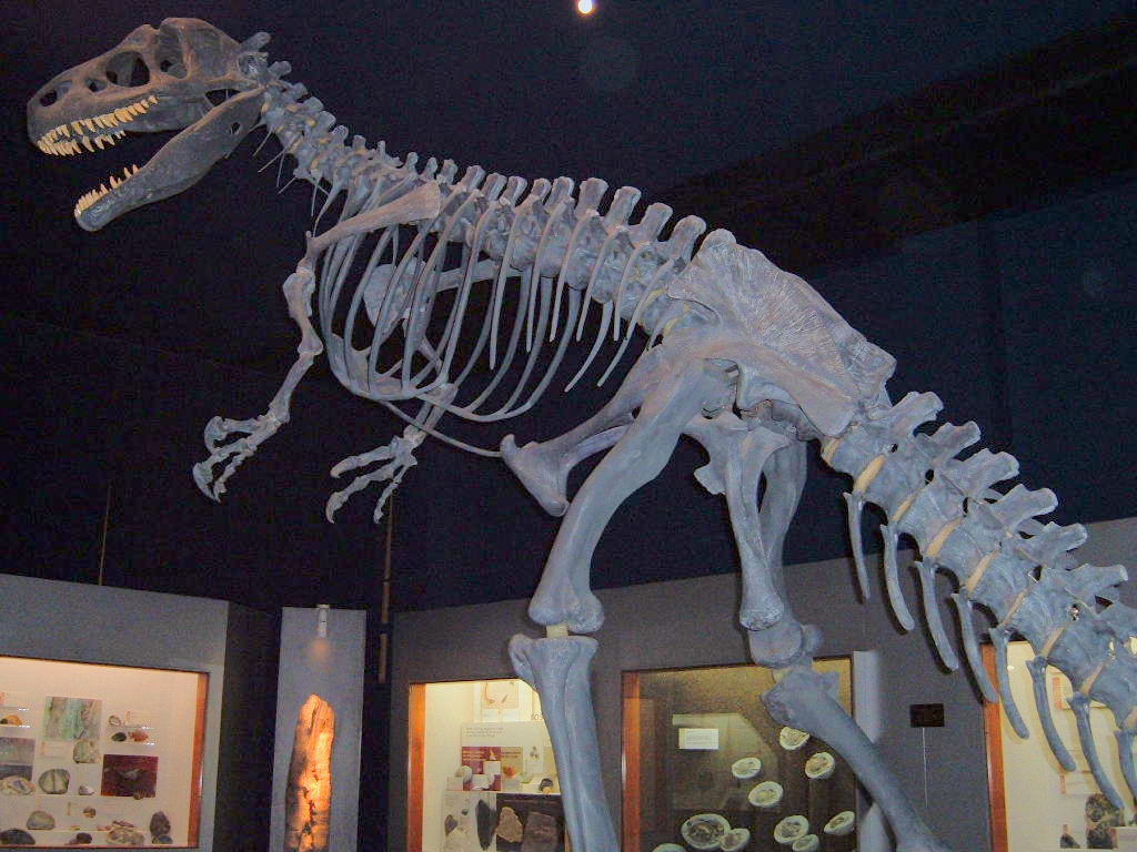 Photo taken at Canterbury Museum in Christchurch, New Zealand